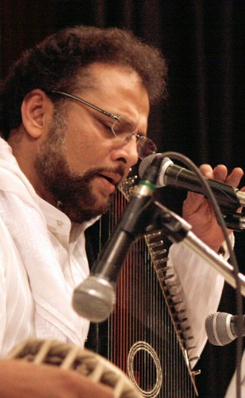 Ustad Raza Ali Khan giving live performance